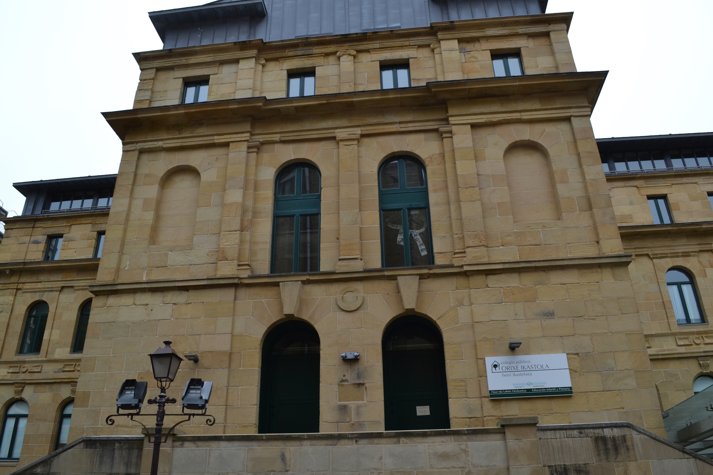 Orixe Ikastola in Donostia-San Sebastian.